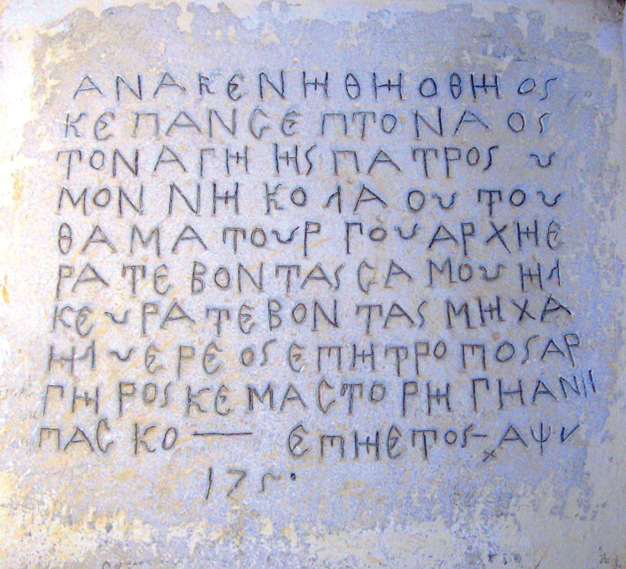 Saint Nicholas Church in Tripotamos Inscription